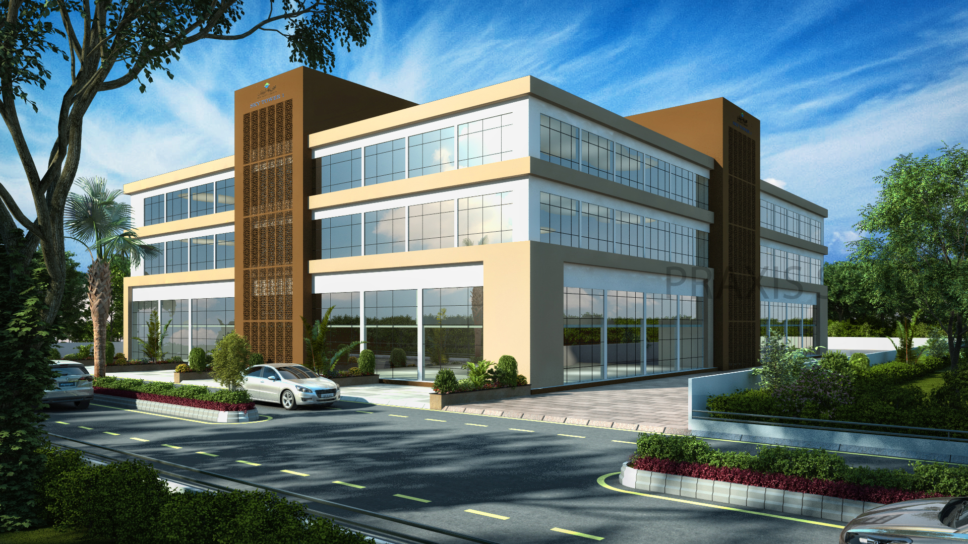 Our work process - 1) We do 3D modeling in google sketchup 2) Then 3D rendering in 3d Max 3) Regularly We provide First draft render in 4 days. It depends on the complexicity of model